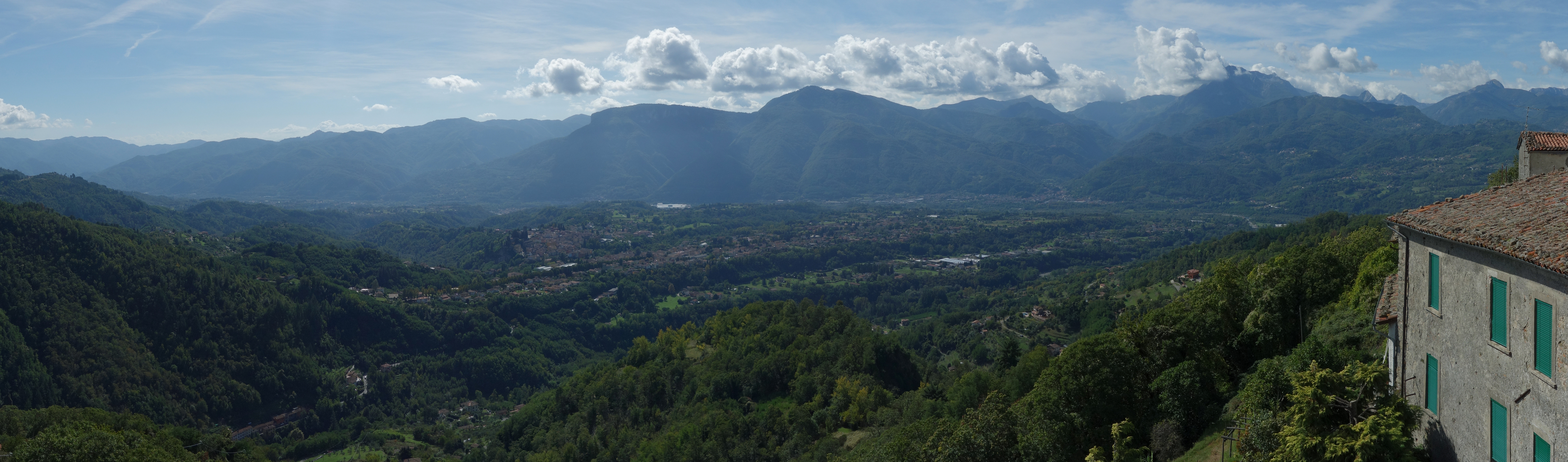 A panorama taken from Sommocolonia, a small hillside village which belongs to the town of Barga in the region of Garfagnana, Tuscany, Italy. The image shows the valley of the Serchio river with the Apuan Alps in the background. In the center Barga can be seen and at the feet of the Apuan Alps one can make out Gallicano. The tallest visible mountain, at the right, its summit partly obscured by clouds, is Pania Secca.